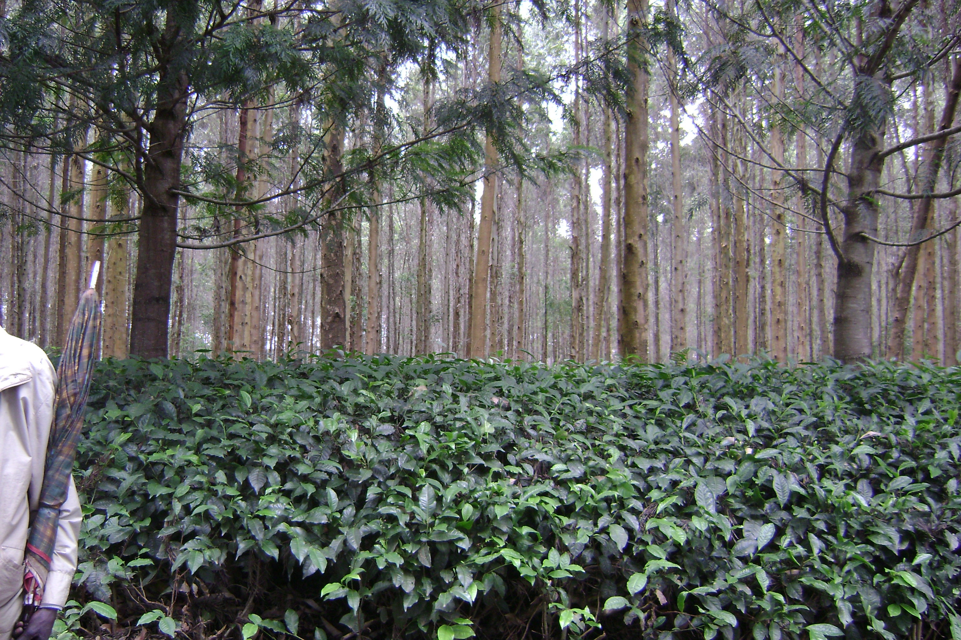 Pic by